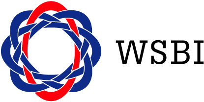 Logo os the World Savings and Retail Banking Institute (WSBI)